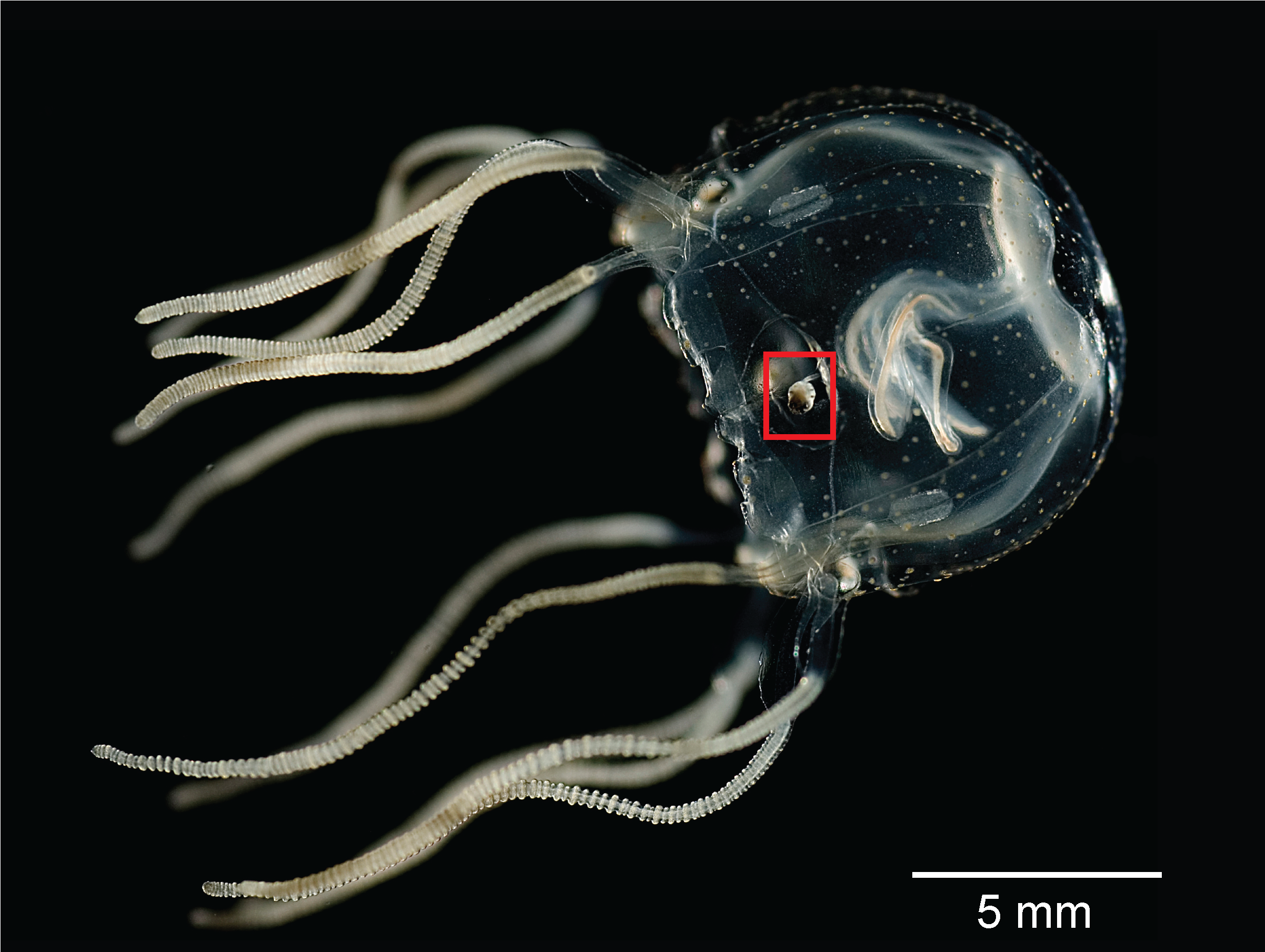 Tripedalia cystophora 's rhopalium shown in red.